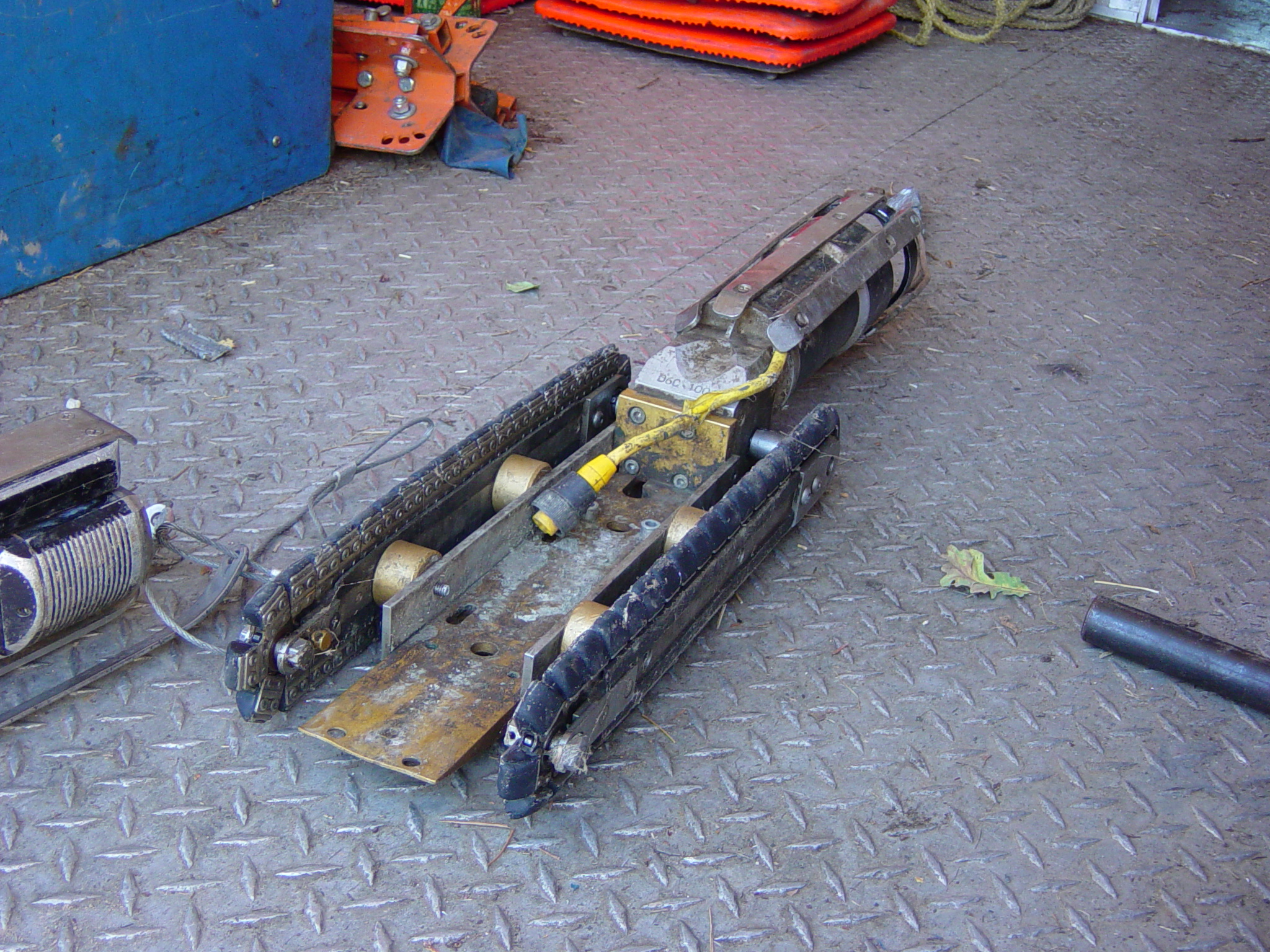 Remotely controlled tractor device to carry a pipeline video inspection device. Image by User:Leonard G.